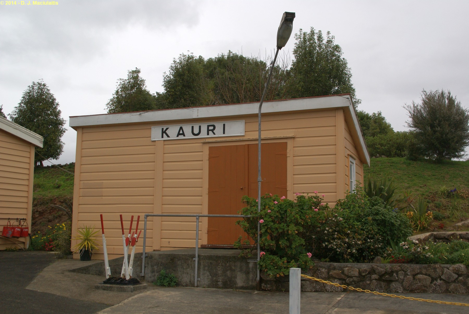 Kauri Railway Station, north of Whangarei, New Zealand